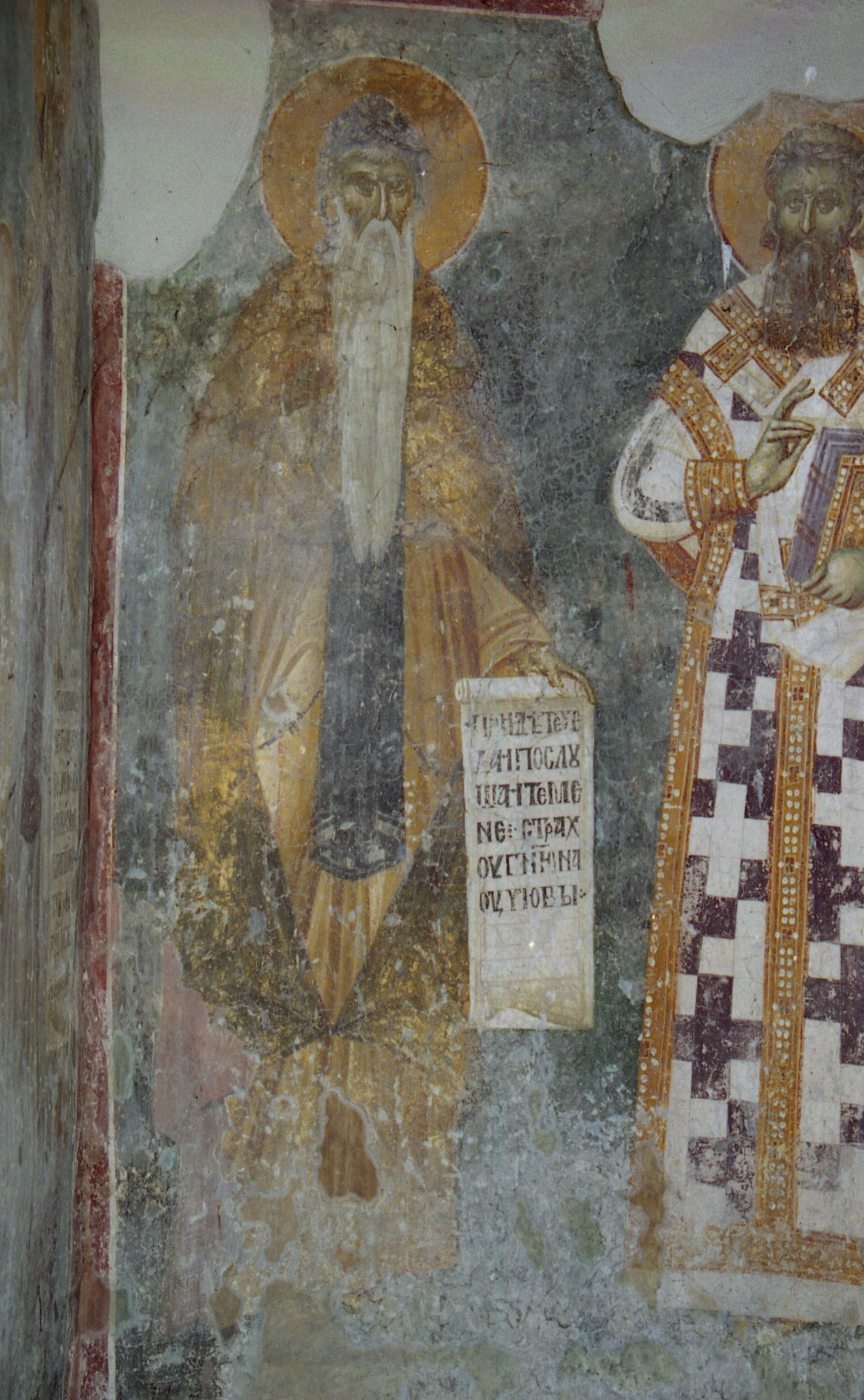 Frescos in St. Nikita Church near Skopje in Macedonia